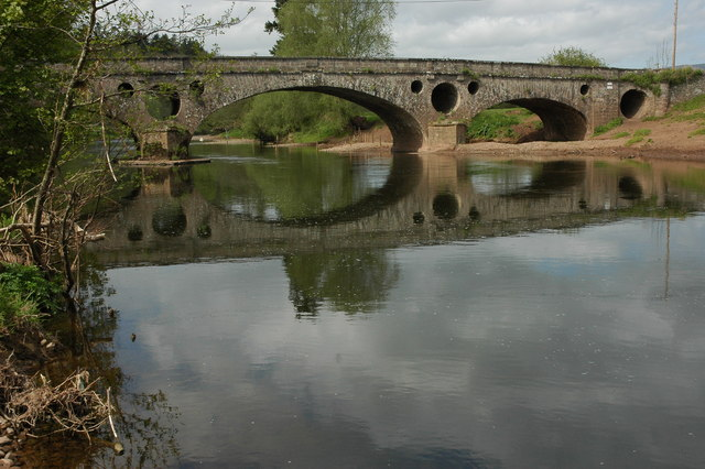 Pant-y-Geotre Bridge The Pant-y-Goitre Bridge spans the River Usk near Llanvihangel Gobion.